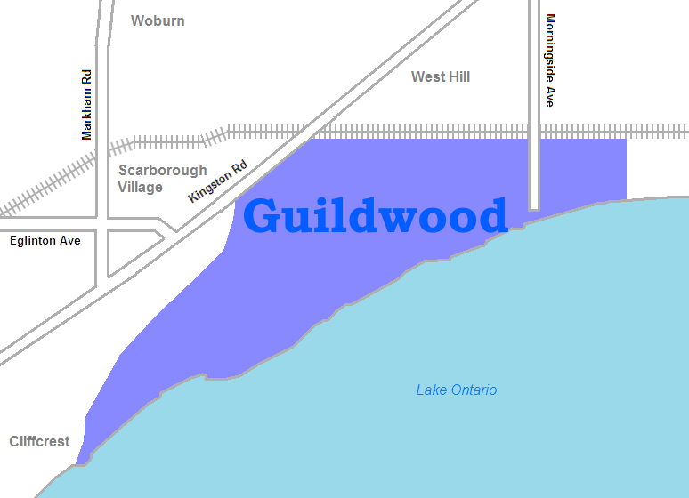 map of Guildwood